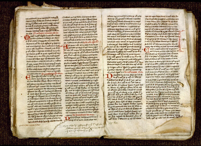 Compendium theologicae veritatis. Angers - BM - ms. 0224, f. 004v-005